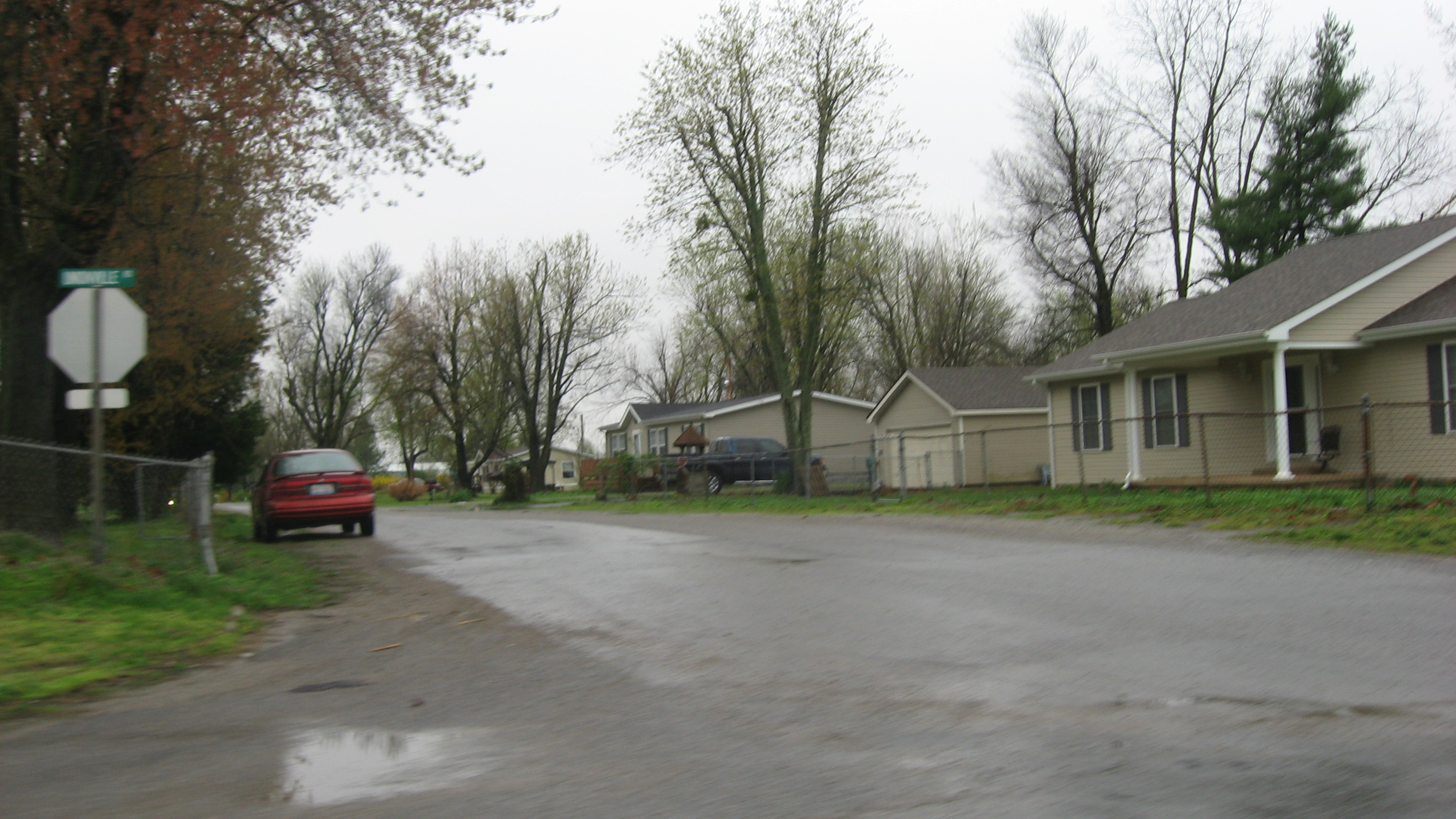 Looking southward along Mount Sterling Road from Unionville Road at Unionville in Jackson Precinct, Massac County, Illinois, United States.